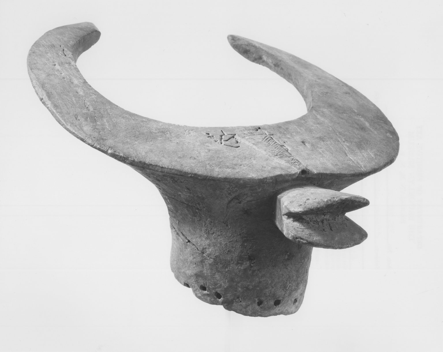 Bush Cow Headdress